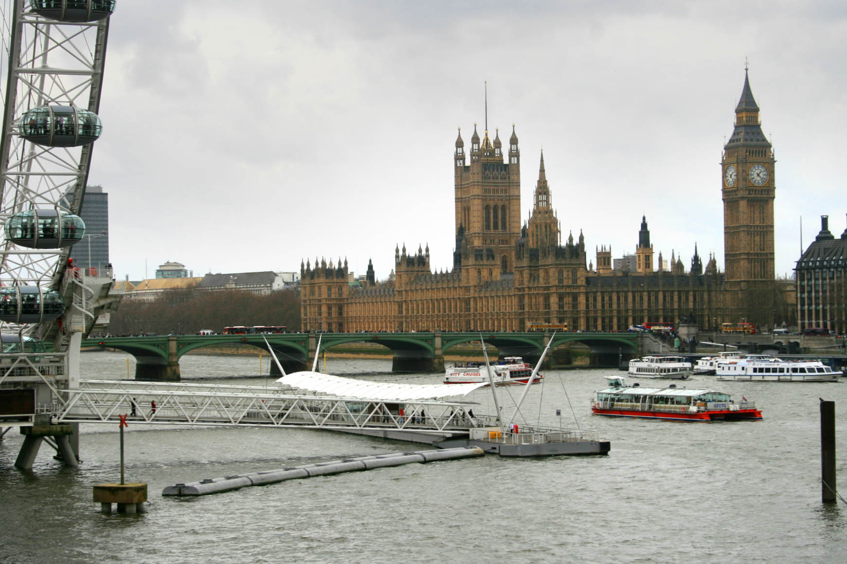 Waterloo Millennium Pier on the River Thames, London, UK - Houses of Parliament and the London Eye in shot